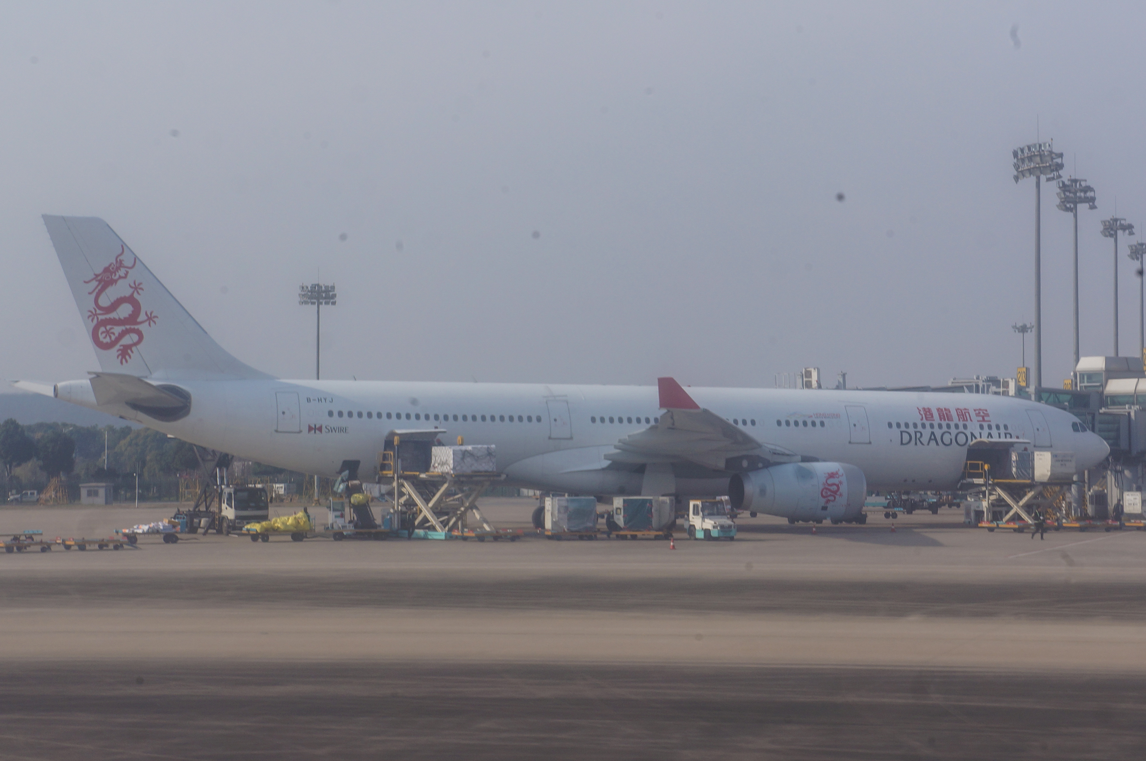 201701 B-HYJ at HGH. I have not seen a single plane with Cathay Dragon livery yet!